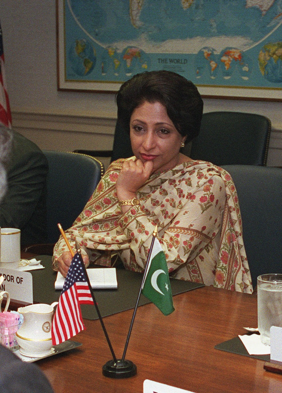 Abdul Sattar (right), Pakistan's minister of foreign affairs, meets with Deputy Secretary of Defense Paul Wolfowitz (left) at the Pentagon, June 19, 2001. Under discussion were a range of regional issues of interest to both nations. Also participating in the talks was Ambassador Maleeha Lodhi (center), Pakistan's ambassador to the United States.